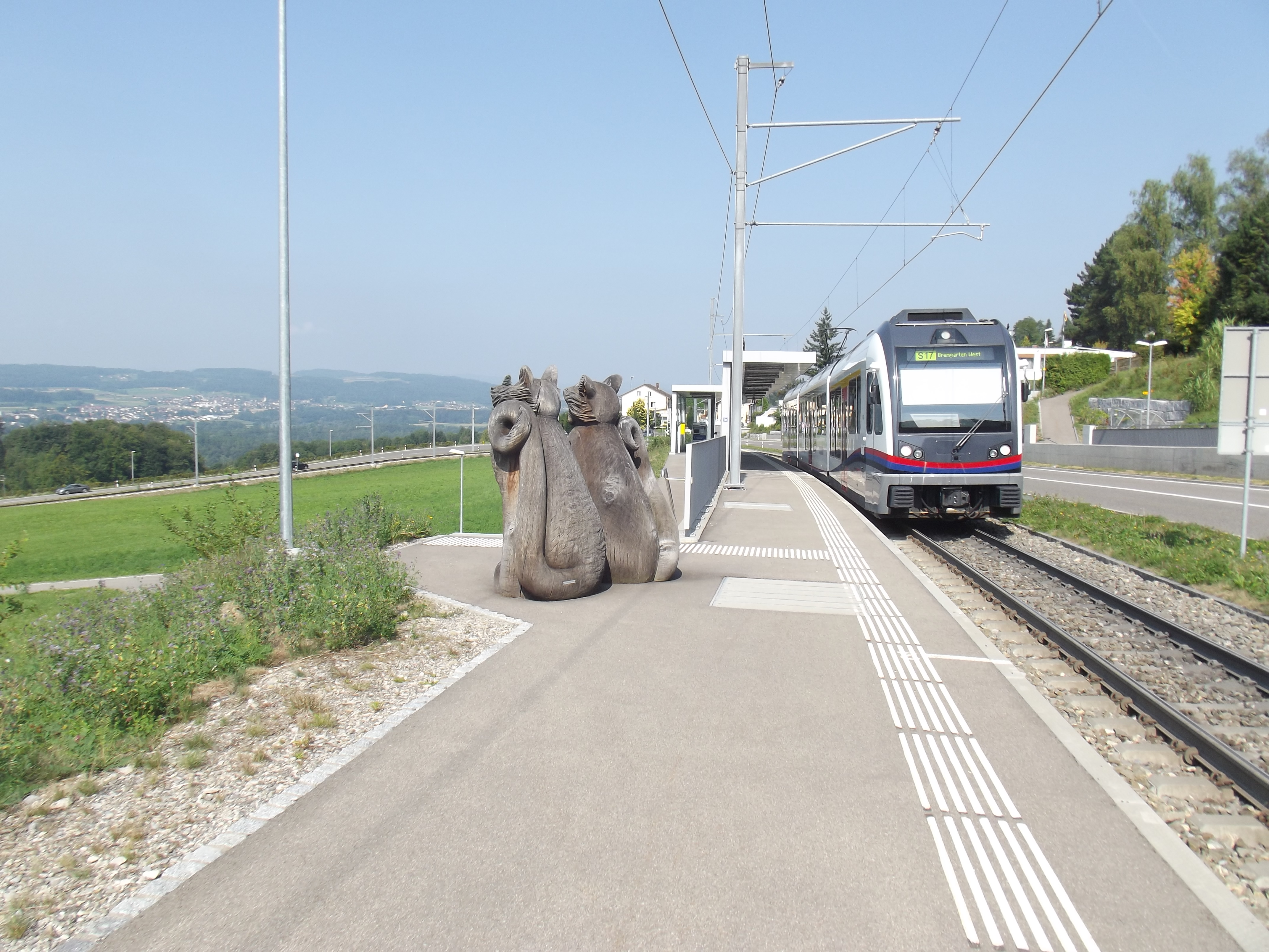 A BDWM ABe4/8 unit on the western approach to the Mutschellen pass, in the platform of Widen Heinrüti train station. Note the descending line in the centre left of the shot.